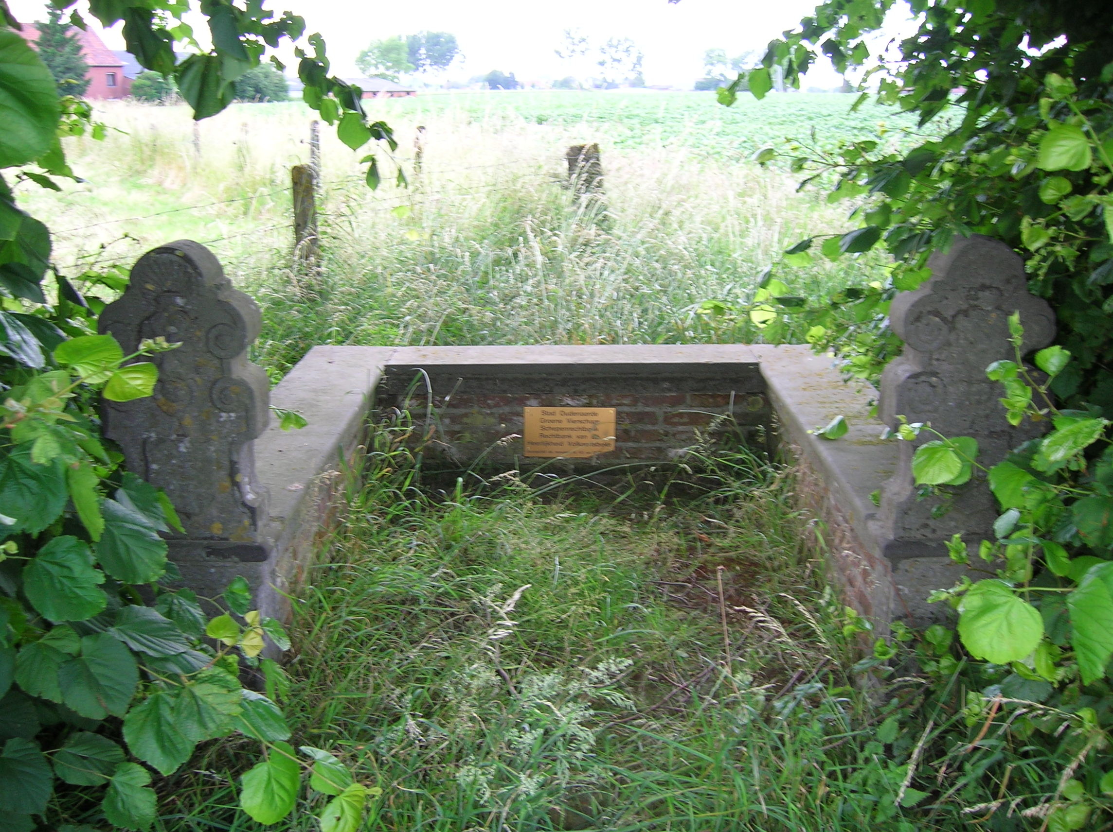 Magistrate's bench. A replica is in the Bokrijk open-air museum